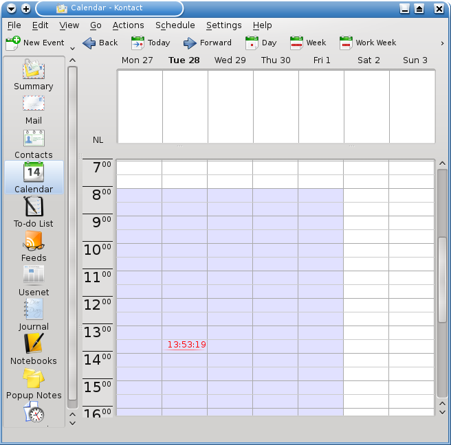 The Marcus Bains Line showing in KDE's calendar application Kontact.